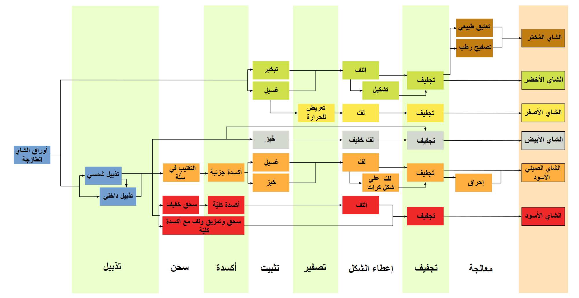 Processing for Green, White, Oolong, Black, and Post-fermentation teas